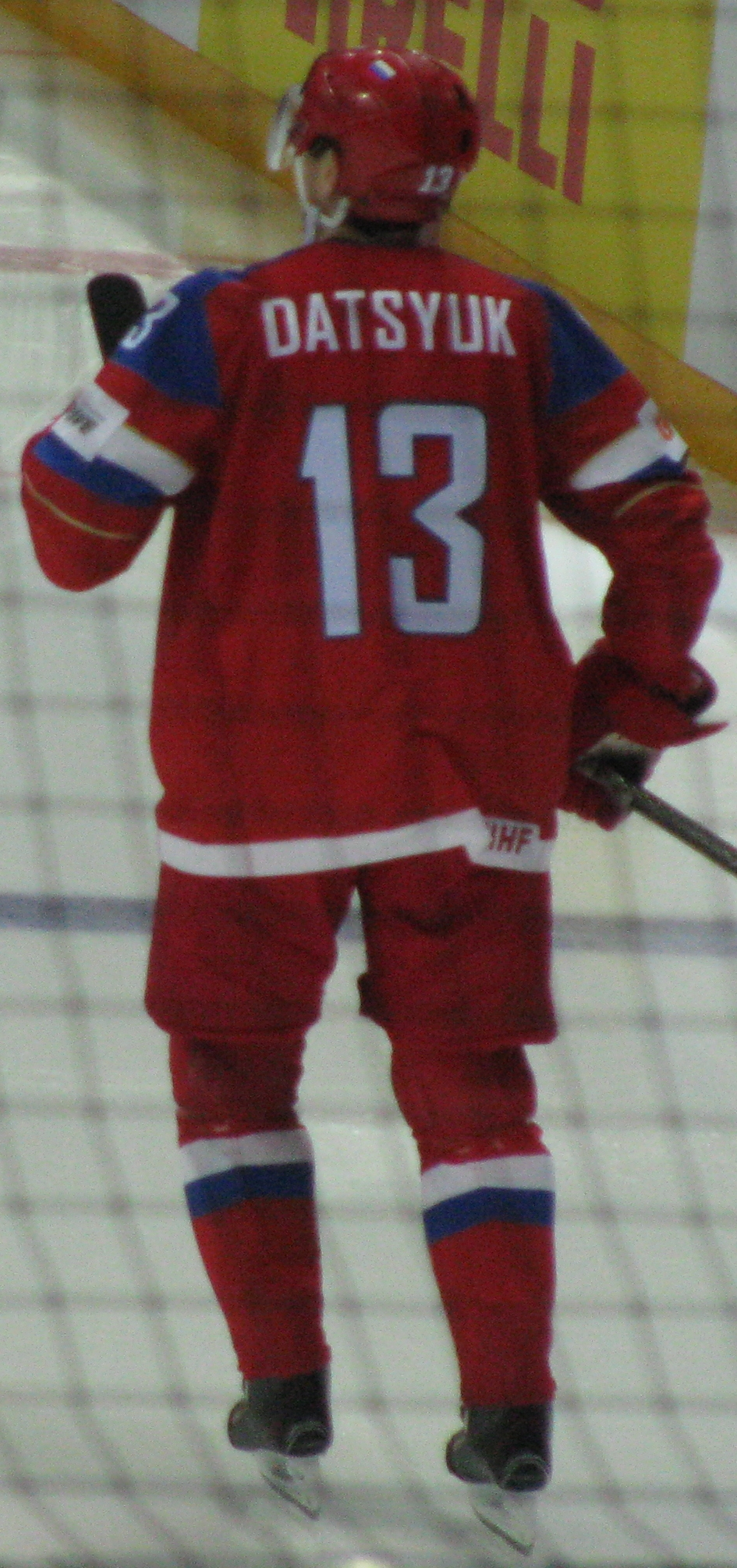 Pavel Datsyuk as a player of Russia national ice hockey team